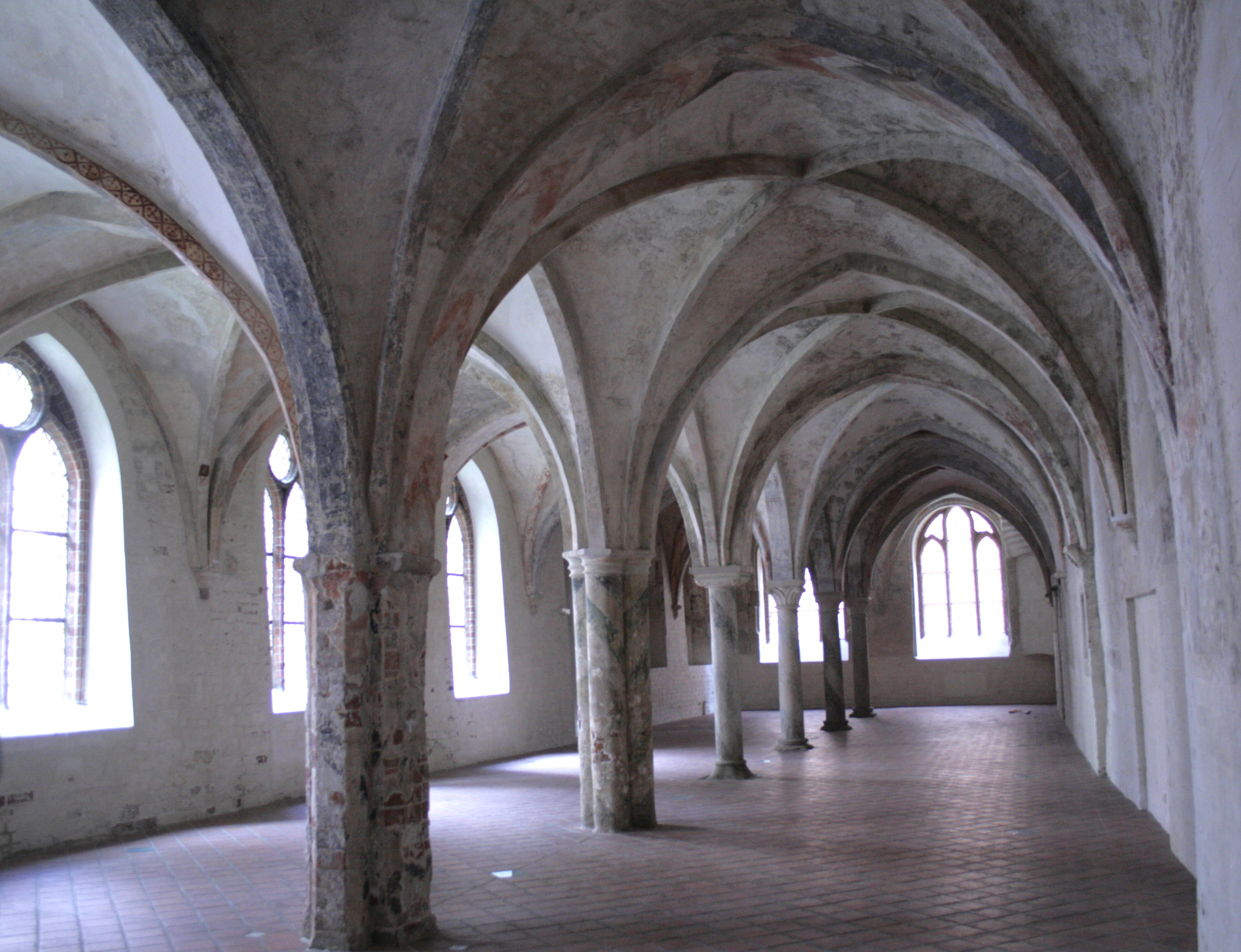 the long hall, the oldest part of the "Burg" in Lübeck